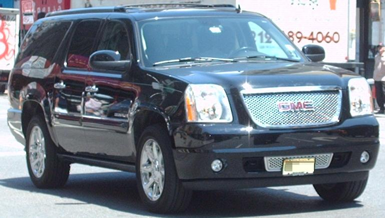 2007 GMC Yukon XL Denali photographed in New York City, New York, USA.